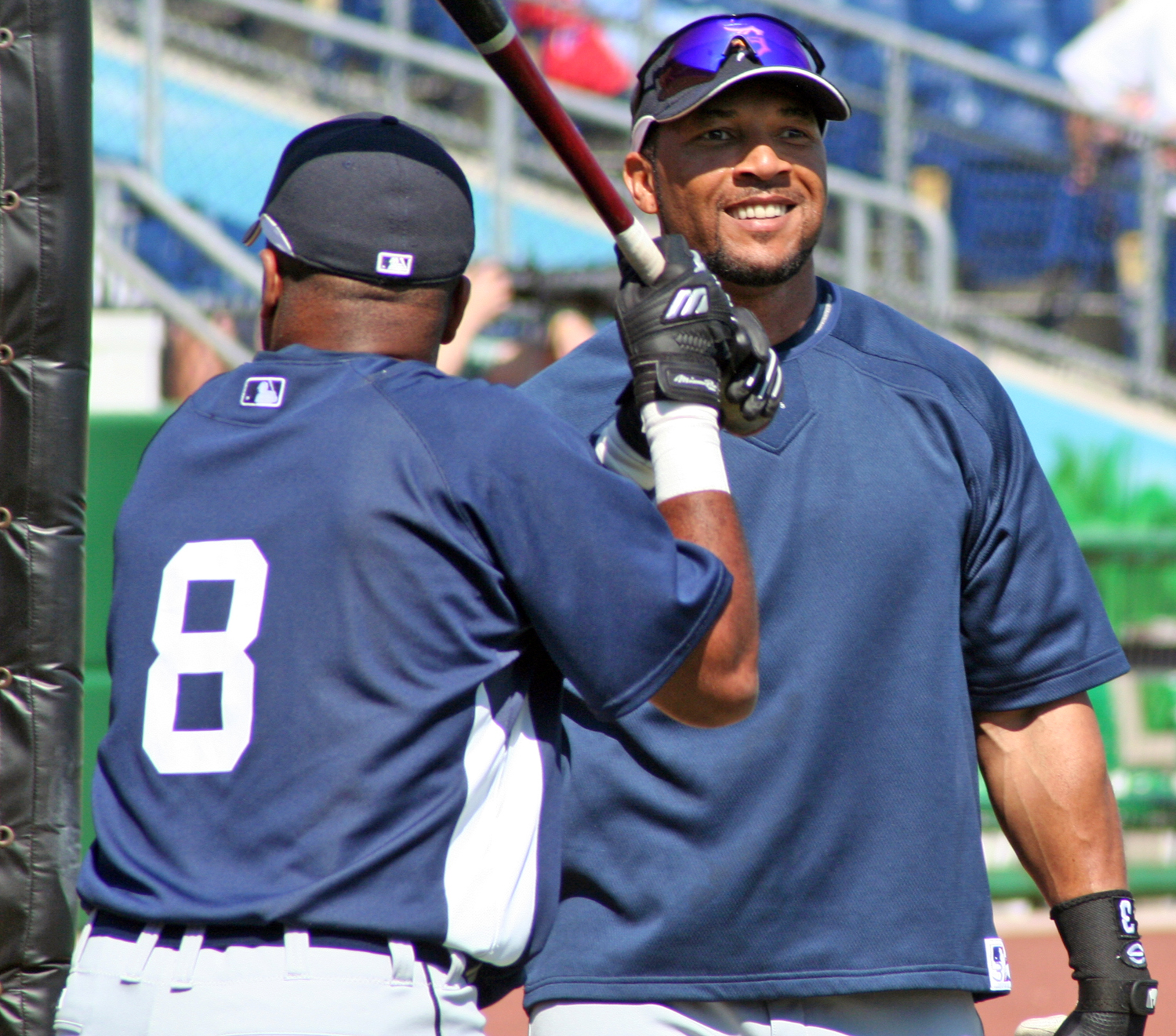 Gary Sheffield during batting practice. Spring Training 2007. Photograph taken by Googie Man. 00:41, 23 March 2007 . . Googie man . . 1500×1321 (1,488,376 bytes)